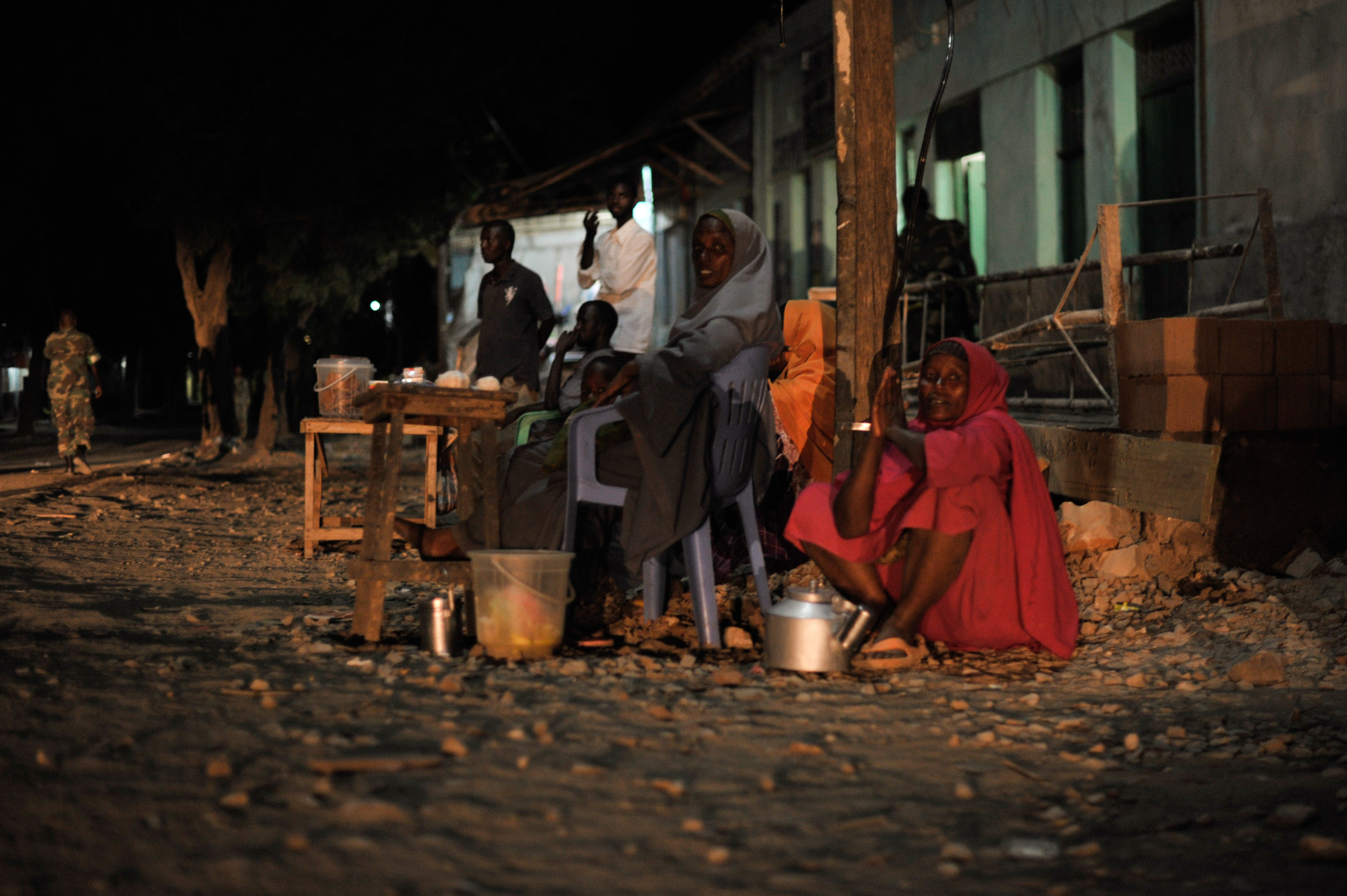 Somali women sell tea on the side of the road in Baidoa, while Ethiopian soldiers as part of the African Union Mission in Somalia, conduct a night patrol through the city on June 22. AMISOM Photo / Tobin Jones